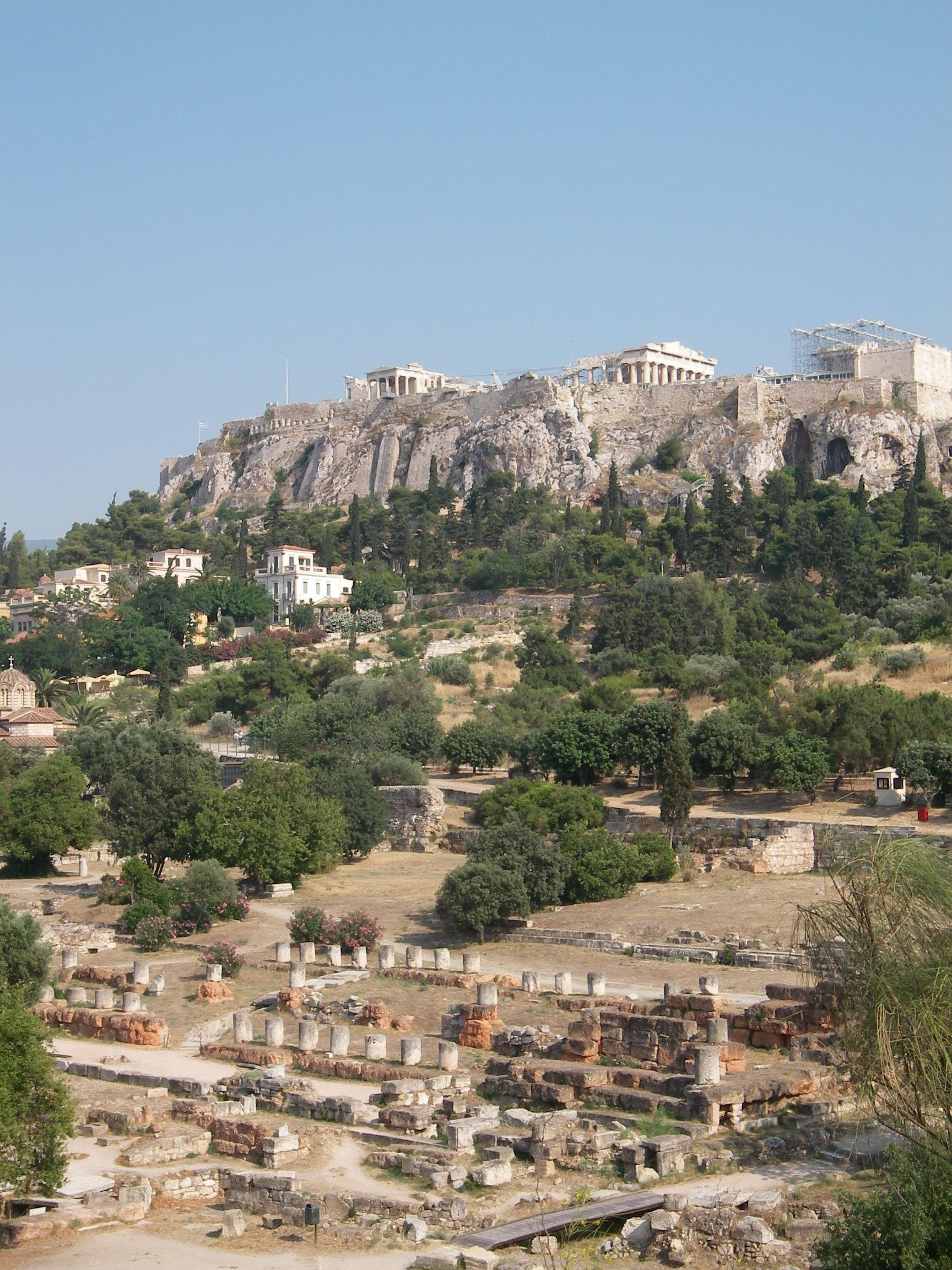 View of the Acropolis and the agora of Athens.